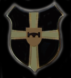 HQ company 70th Engineers Brigade